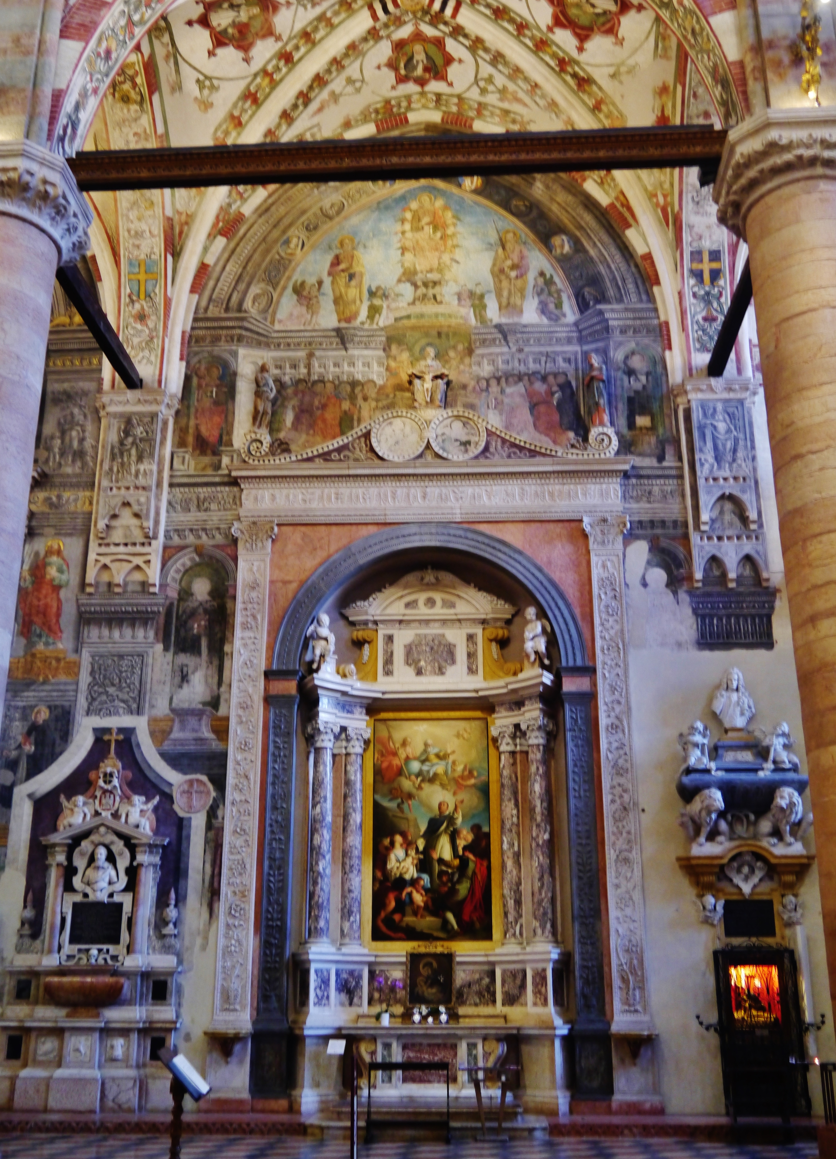 Vincenzo Ferreri Altar of the Church of St. Anastasia, Verona, Province of Verona, Region of Veneto, Italy